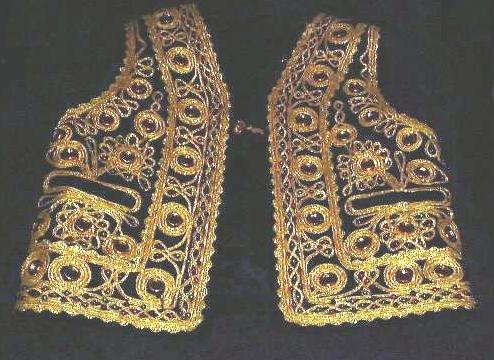 Found the picture in I talked to the owner of the website and got the permission to use it with the condition of stating the origin of the image under it.